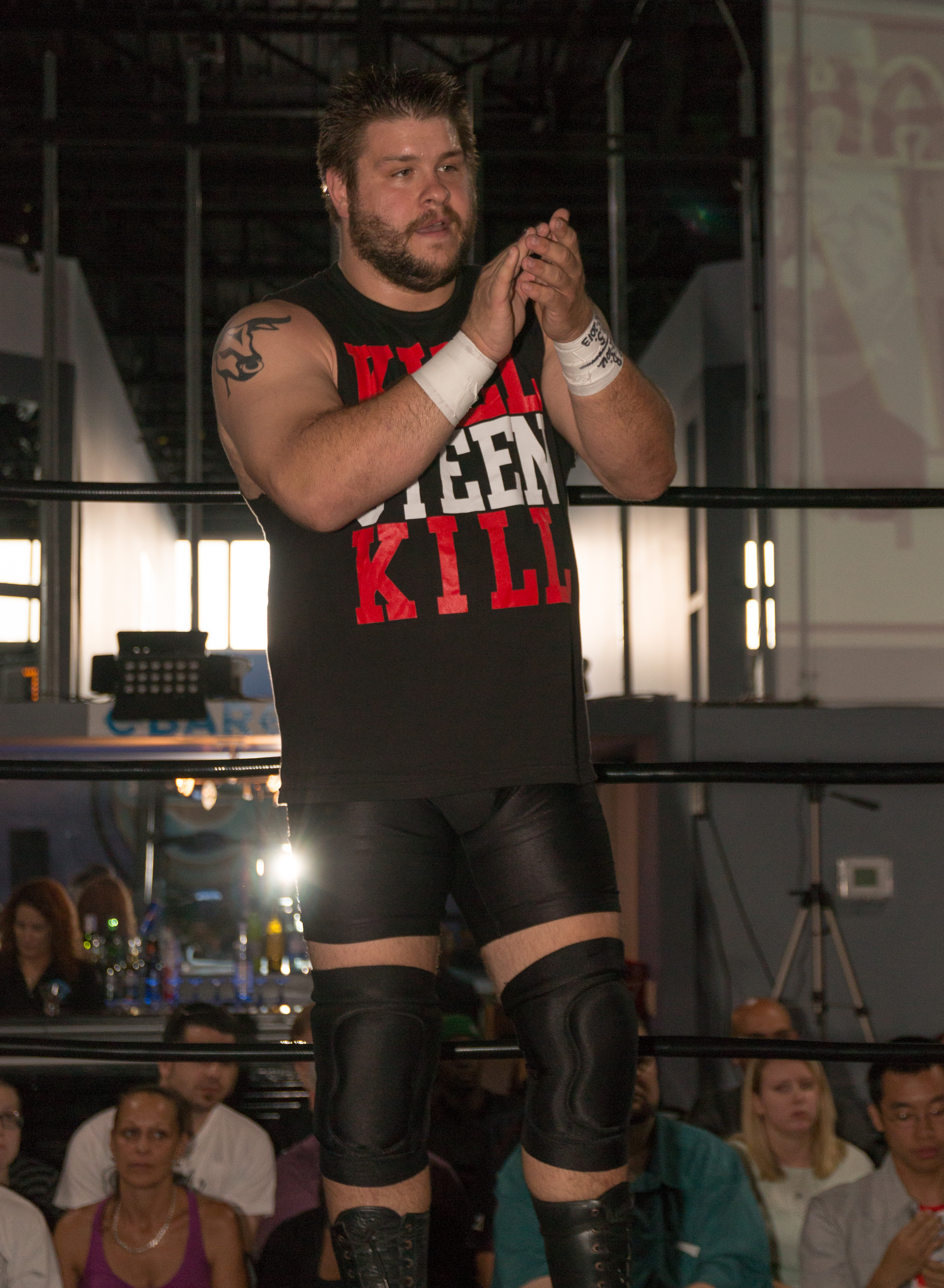 Kevin Steen at a Smash Wrestling show in Mississauga, ON